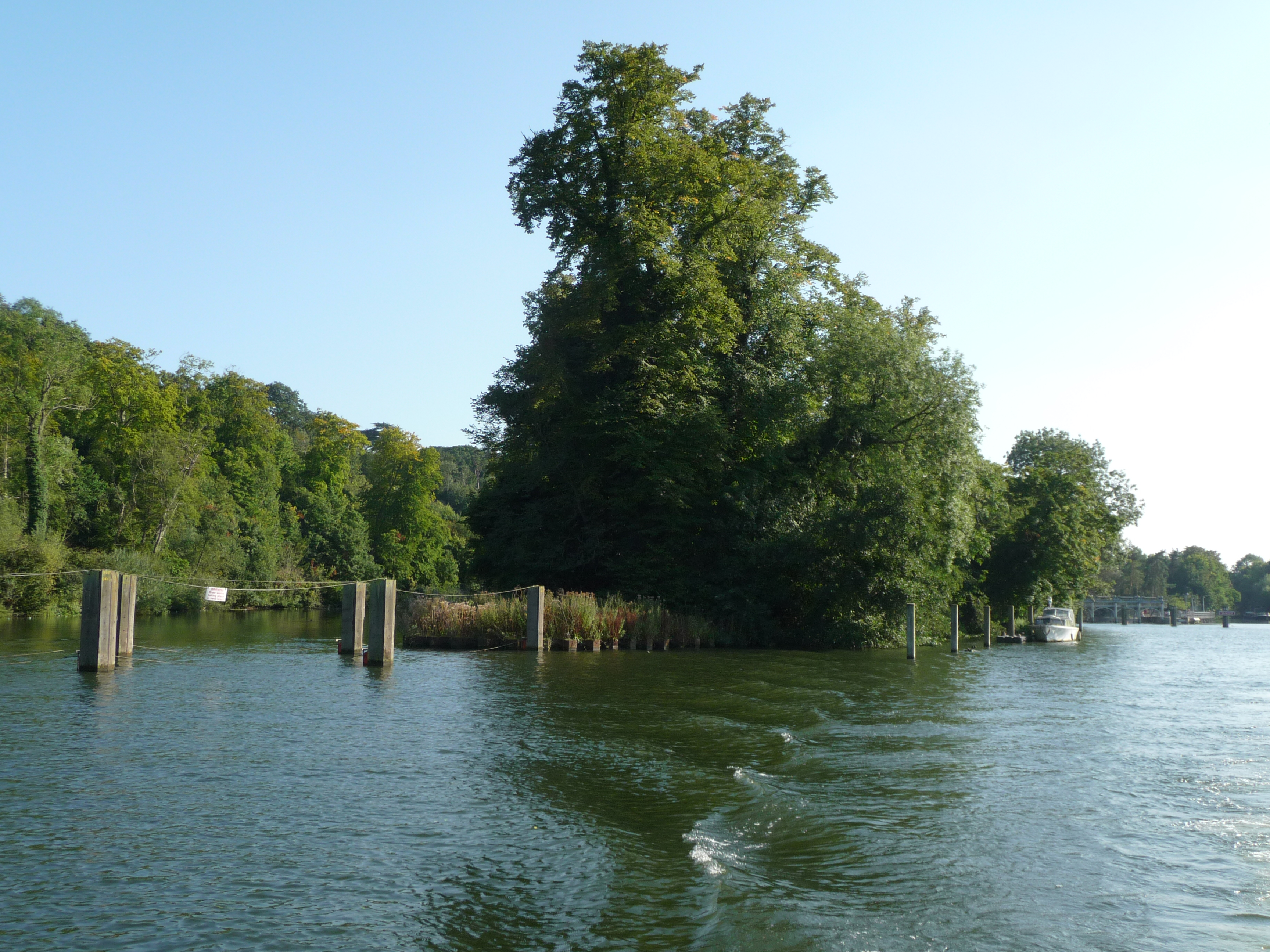 Head of Glen Island in the River Thames above Boulter's Lock, Maidenhead. The head fo the Jubilee river is to the left and the main channel with Boulter's Lock weir to the right.